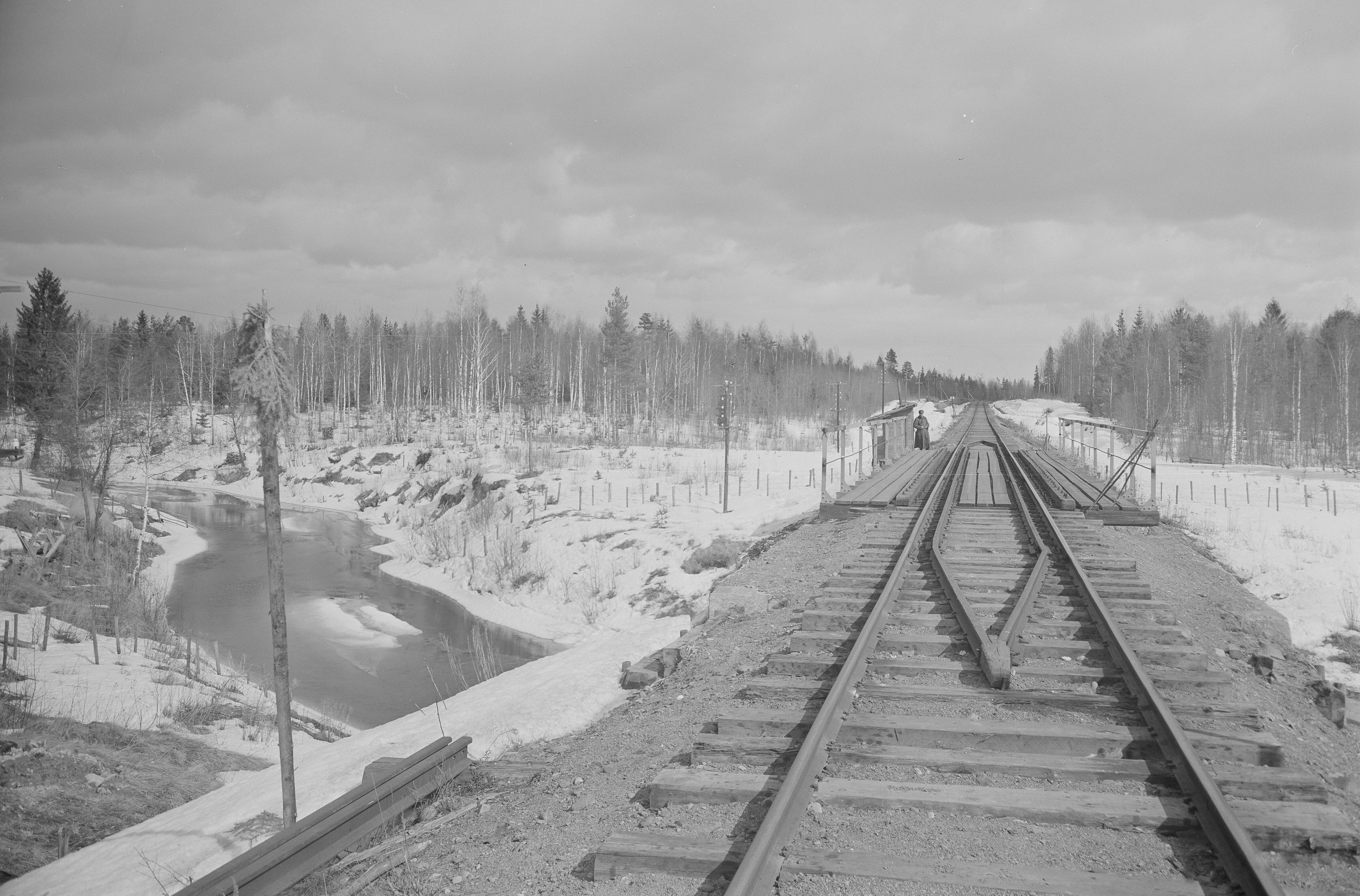 Säskylänjoen ja rautatien risteyksen itäpuolella oleva rautatien mutka, missä II/JR36 pataljoona Jauhiainen vuoden vaihteessa 1940 ylitti rautatien ja tuli takaisin. Etualalla rautatiesilta.